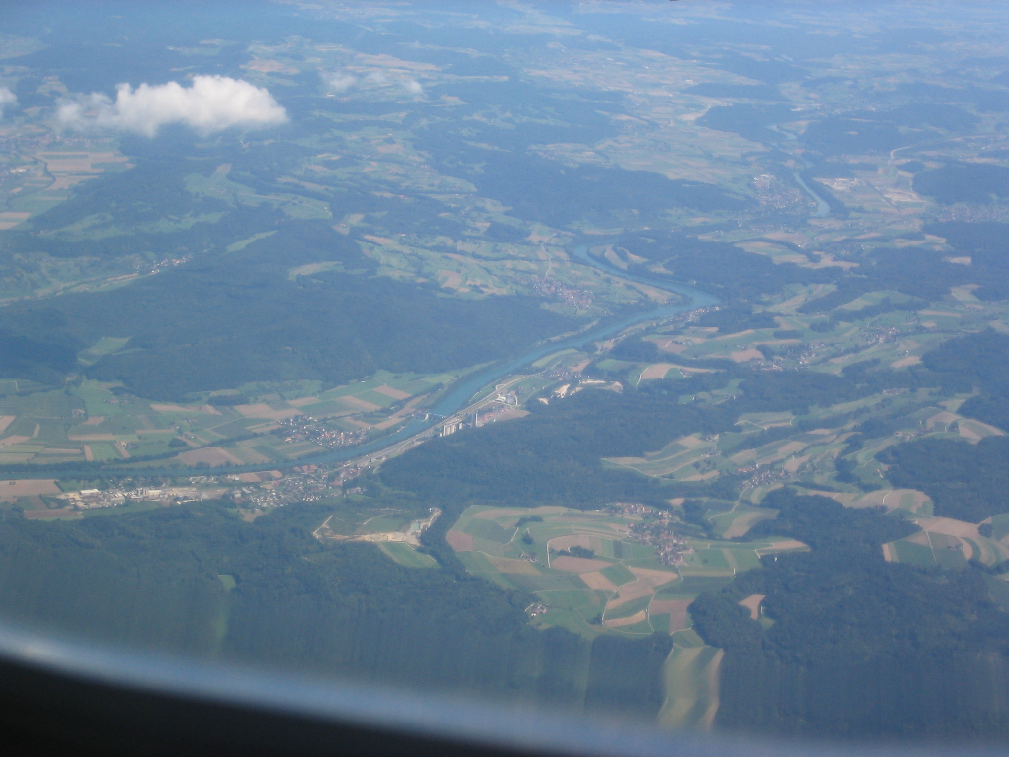 Rhine at the German/Swiss border. Aerial view. Rekingen (Aargau, Switzerland) and Reckingen (part of Küssaberg, Baden-Württemberg, Germany) on the lower left side. Kraftwerk Reckingen across the river Lienheim Hohentengen am Hochrhein